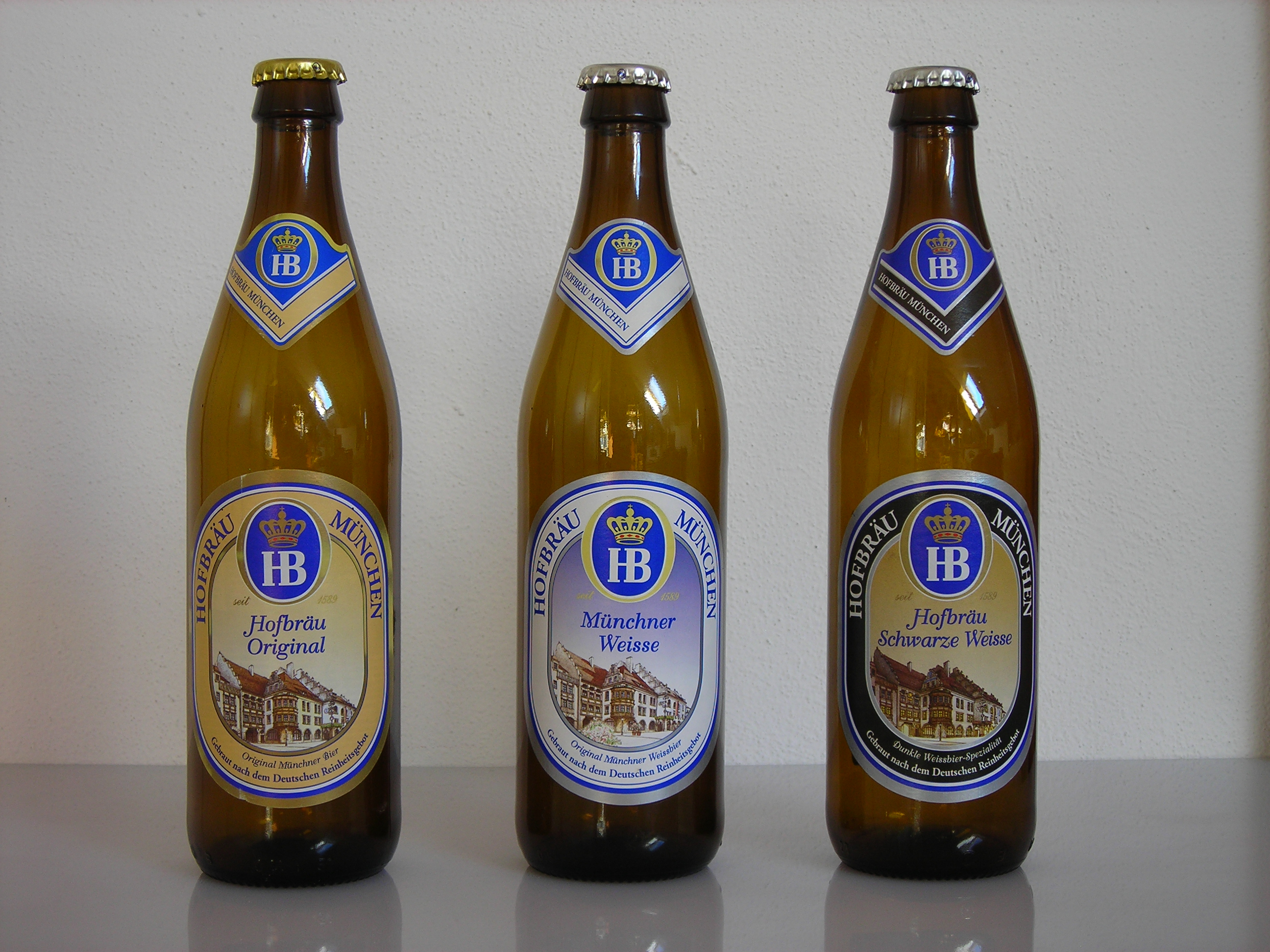 Hofbräu München beer bottles.